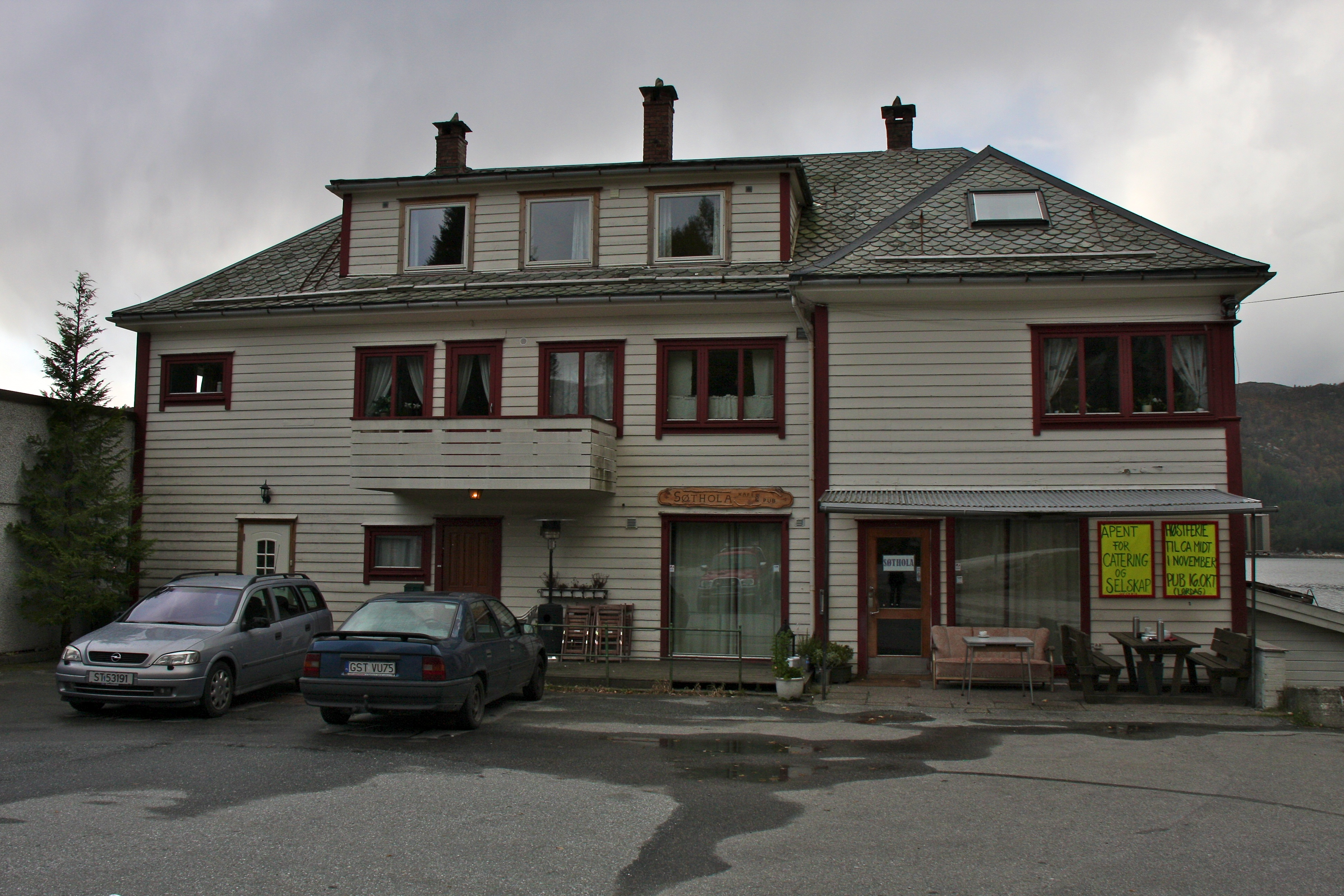 Gulen municipality, Norway.